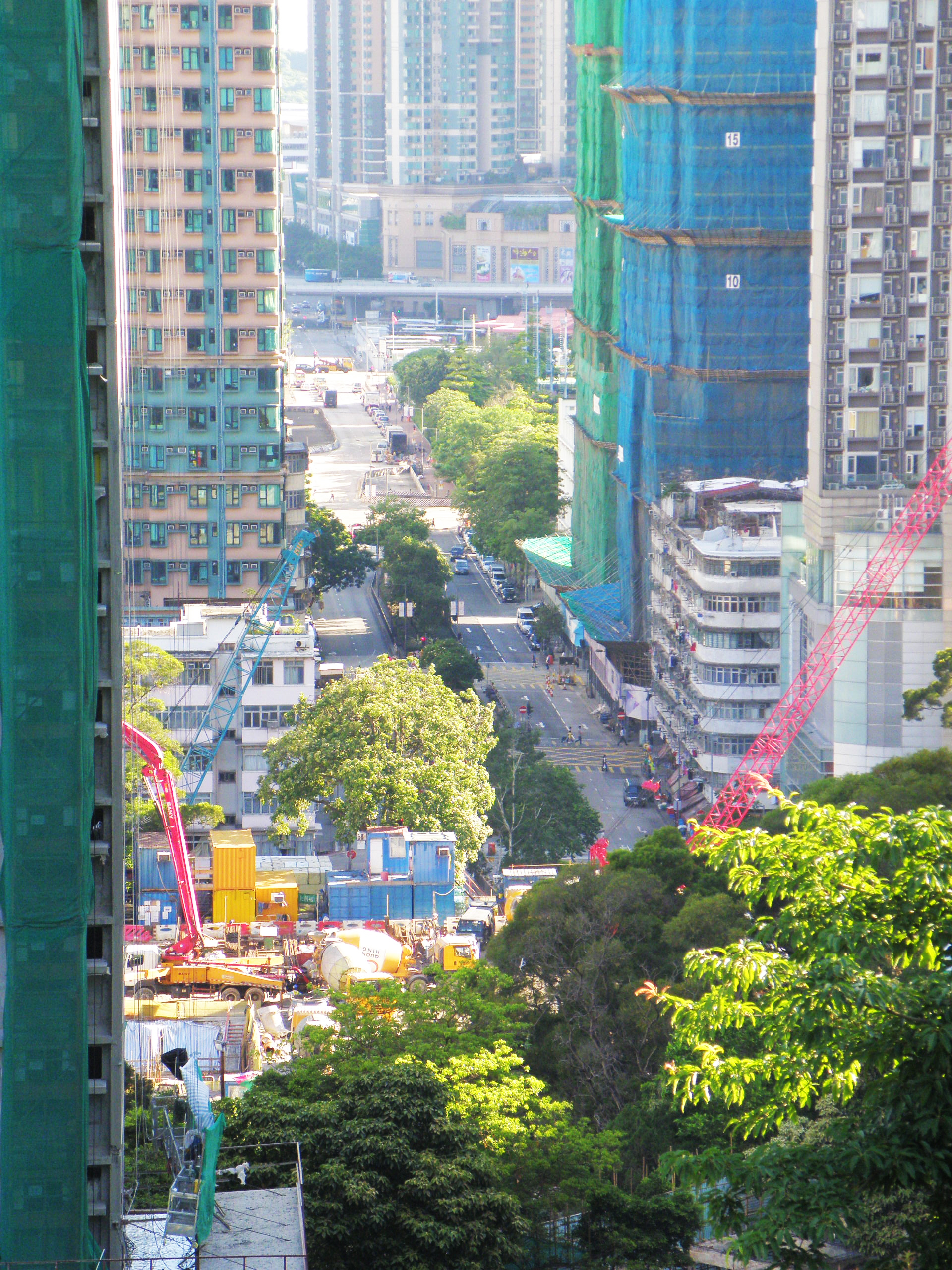 Hing Wah Street in Cheung Sha Wan, Hong Kong.